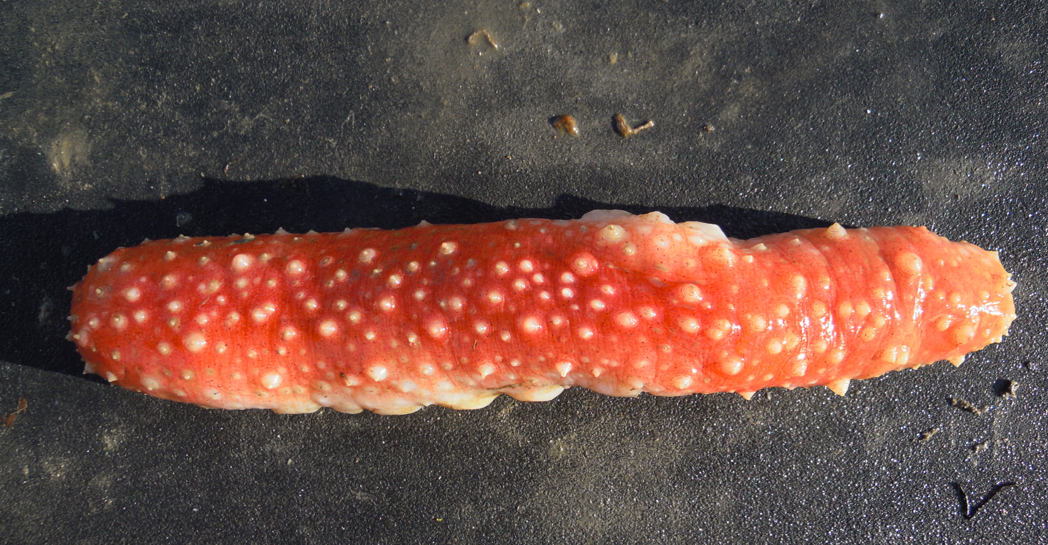 Sea cucumbers - echinoderms from the class Holothuroidea in the sea near Stavern, Norway